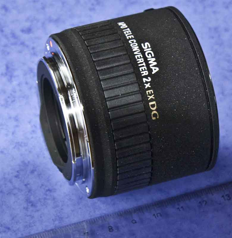 Sigma APO teleconverter 2x EX DG, with twice the focal length